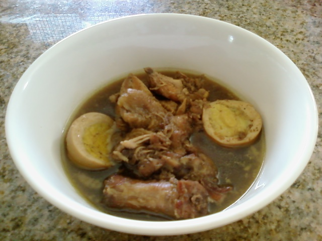 Cuisine of Cambodia